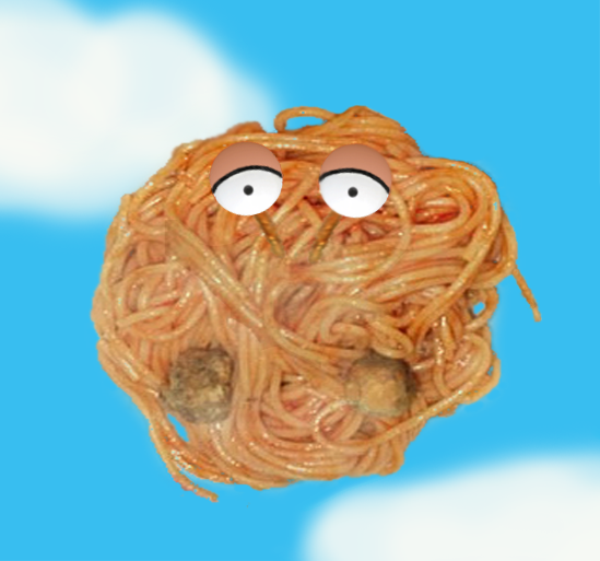 Depiction of Flying Spaghetti Monster